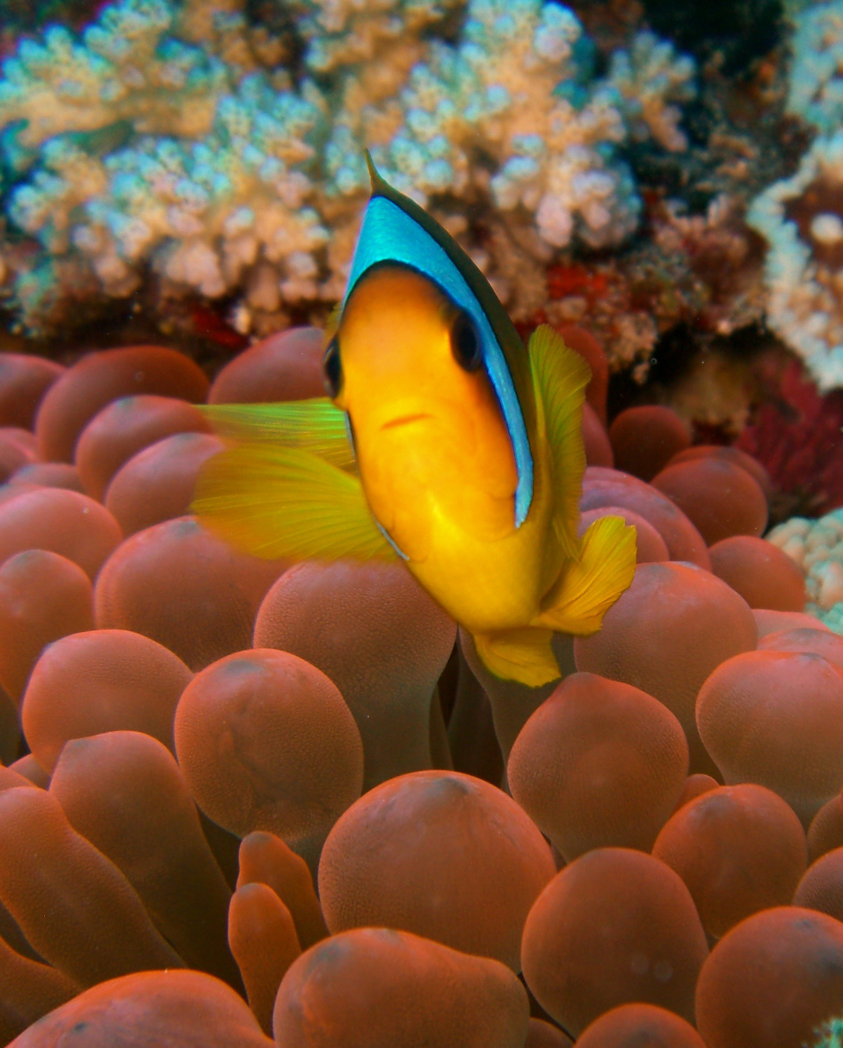 Anemonefish Amphiprion bicinctus on Entacmaea quadricolor